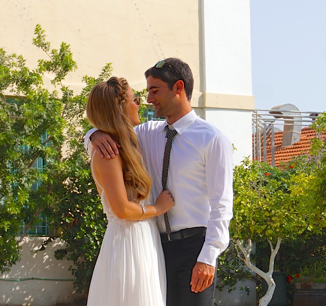 The Station is a newer development in Tel Aviv, created from an old rail station - think New York's Highline Couple prepares for their wedding, at The Station, Tel Aviv